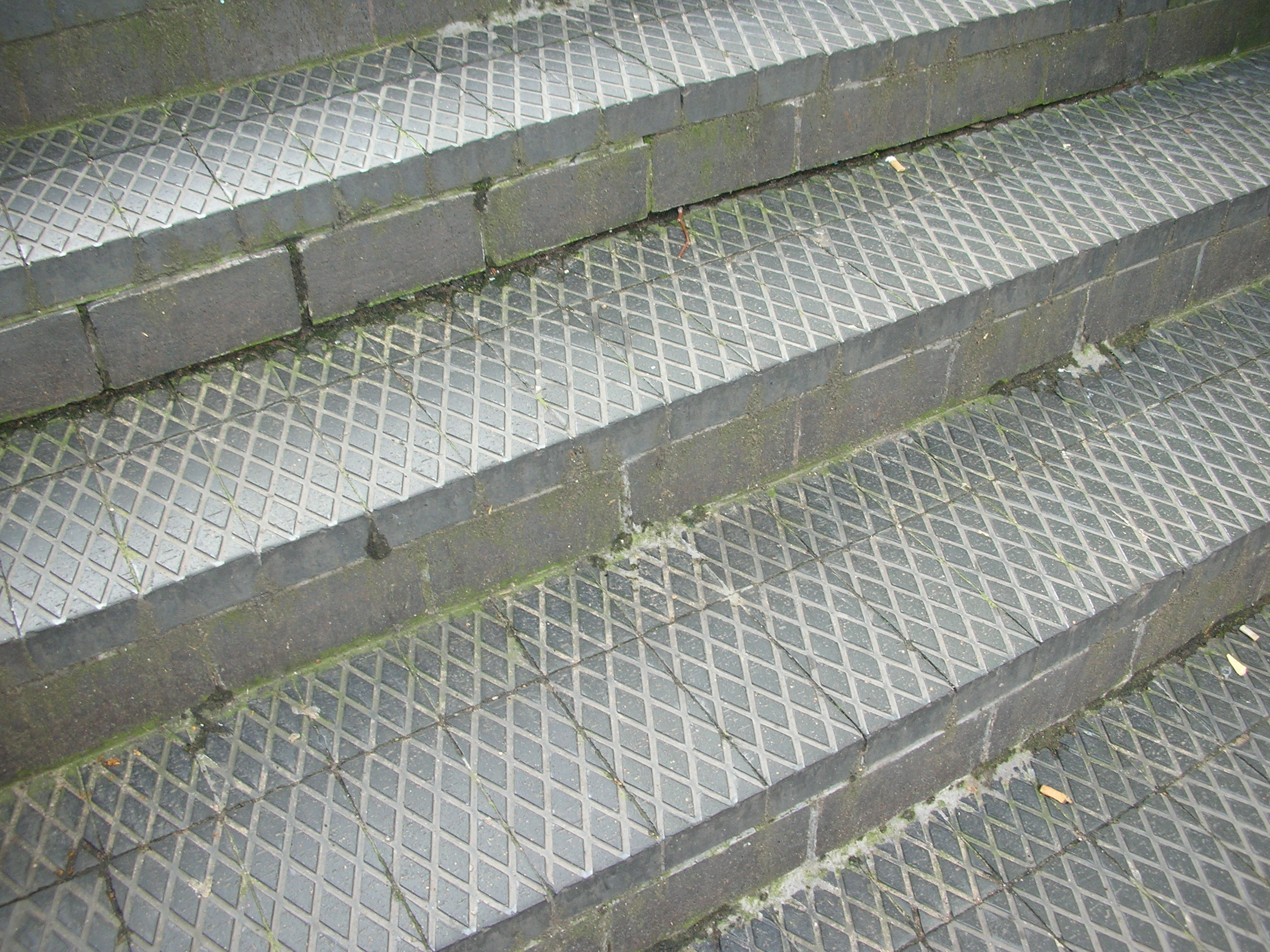 Contemporary, hard-wearing Staffordshire blue brick steps at Brindleyplace, Birmingham, England. Photographed by me 26 October 2006. Oosoom